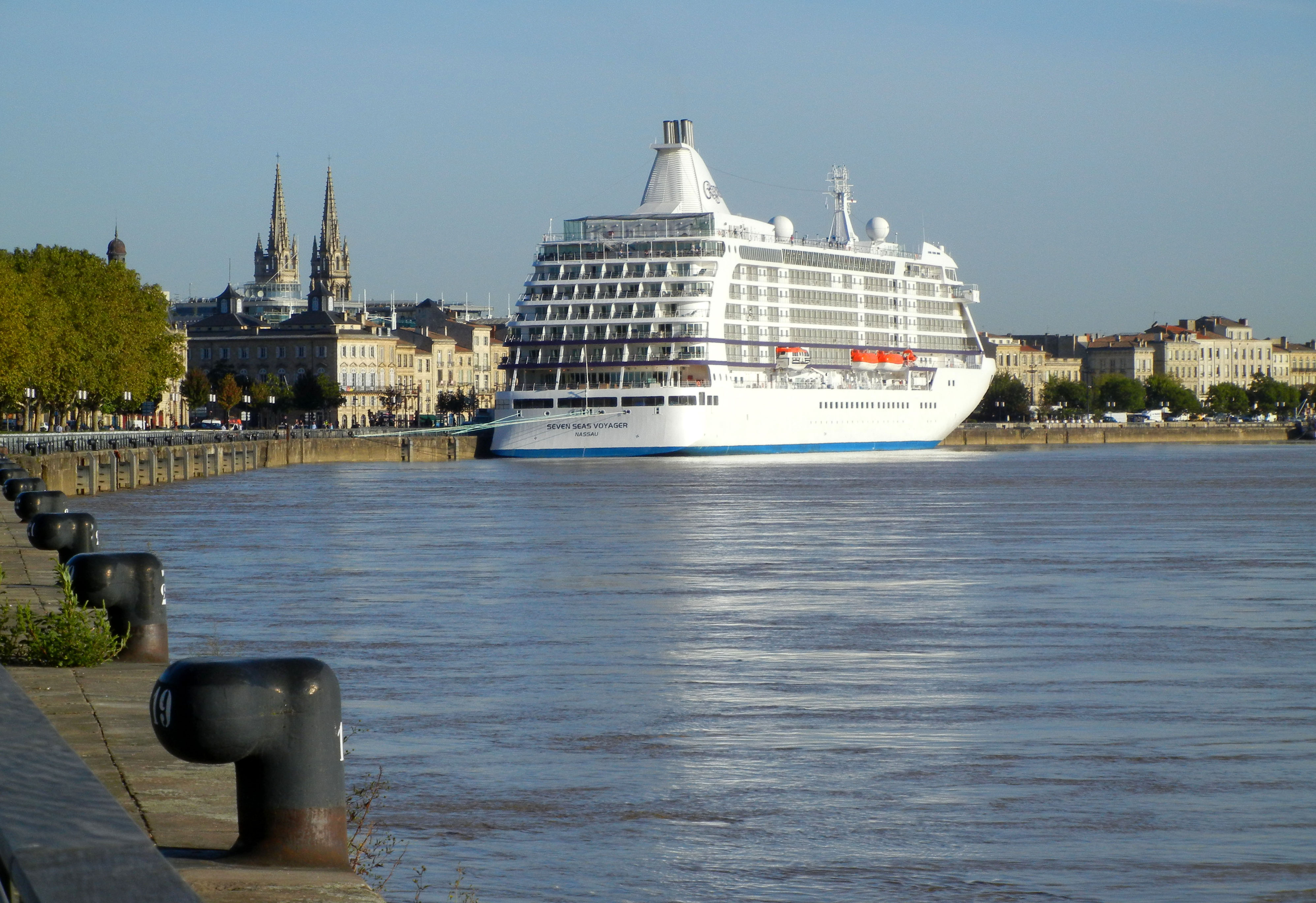 Seven Seas Voyager, Bordeaux September 20, 2012